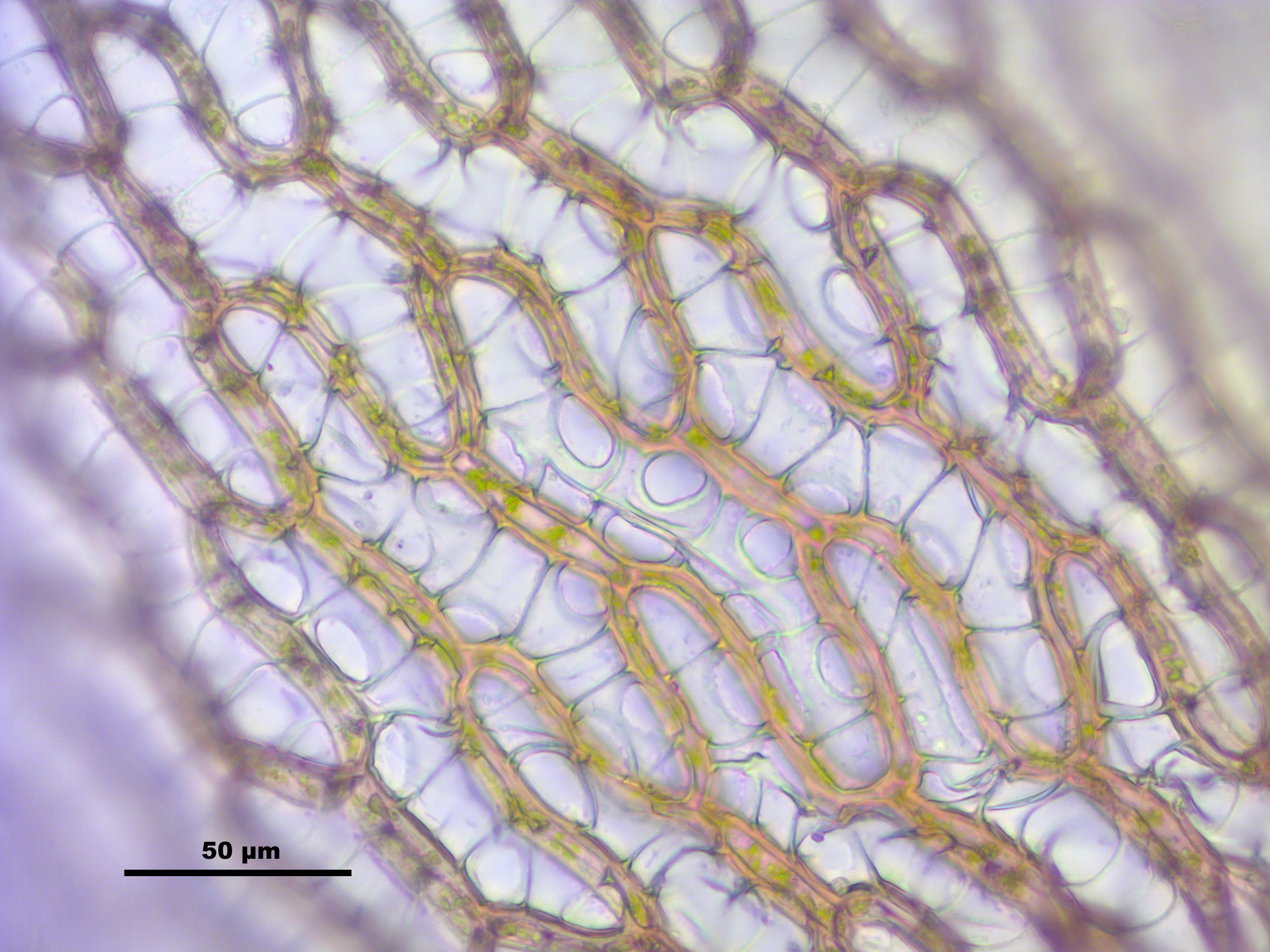 Sphagnum capillifolium